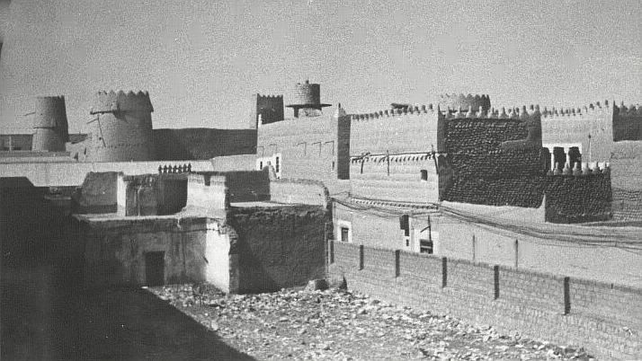 Buildings in Riyadh.